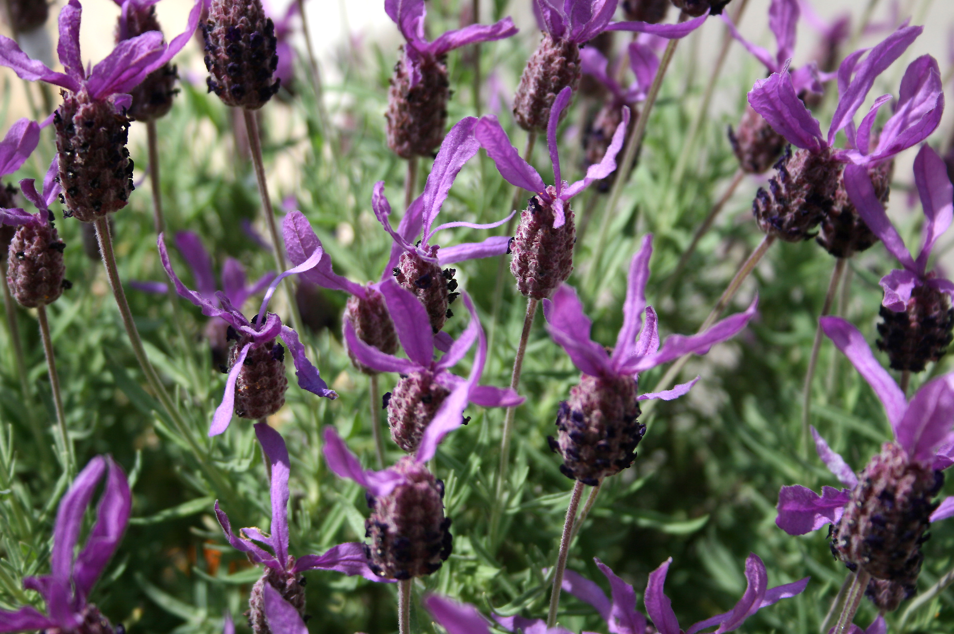 Lavandula stoechas (French Lavender, Spanish Lavender, Stoechas Lavender, or Topped Lavender). - Habit: Ota ( Corse-du-Sud) - France.